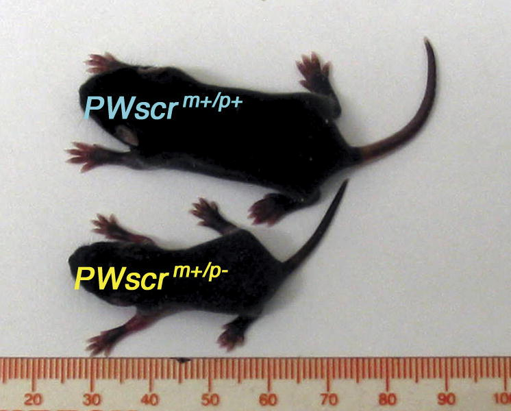 Growth Differences among PWScrm+/p− and PWScrm+/p+ Siblings Representative pair of mice from the same litter at postnatal day 10 (129SV x C57BL/6 genetic crosses).